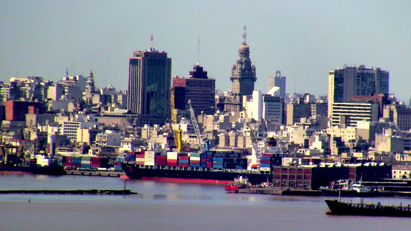 Landscape view of Fuerte Artigas, Montevideo, Uruguay.